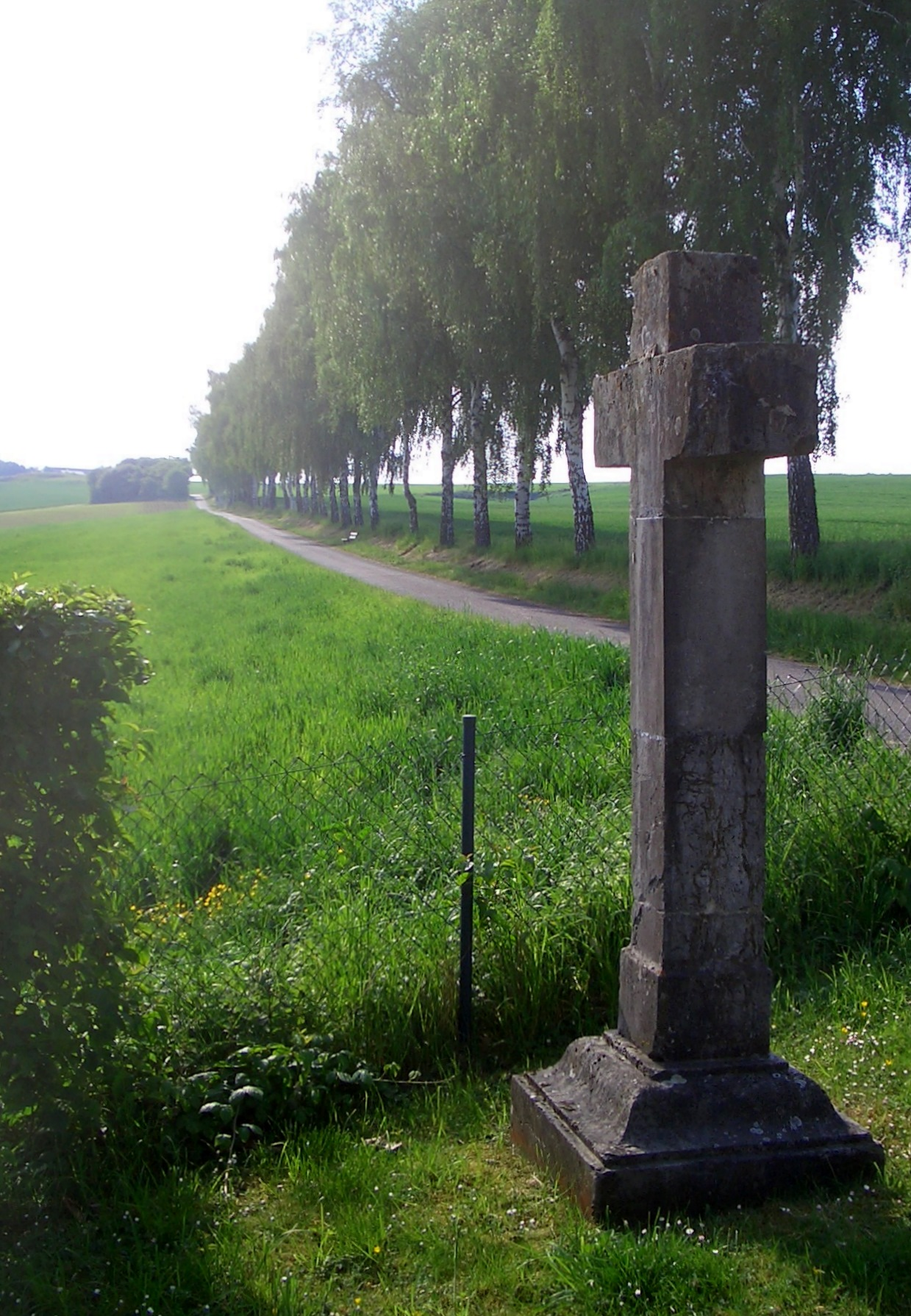 Stone memorial of late Franz Alexander of Nassau-Hadamar